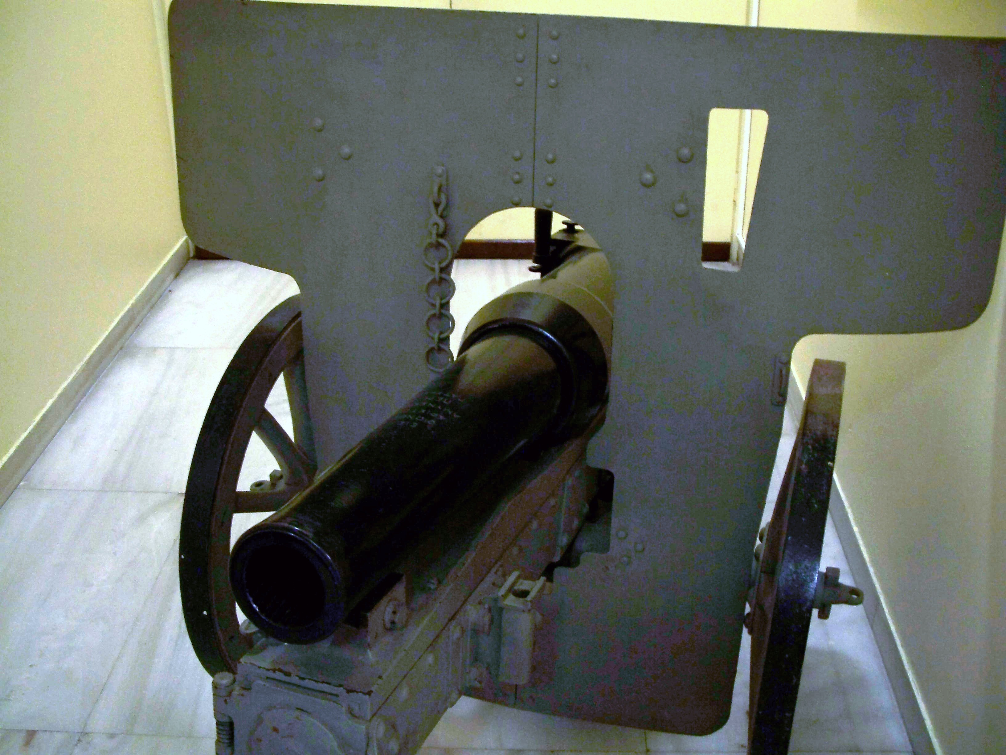 The Worlds first mountain cannon that could be broken down to pieces (knock-down cannon), invented by P. Lykoudis (Π. Λυκούδης). National Historical Museum, Athens, Greece.